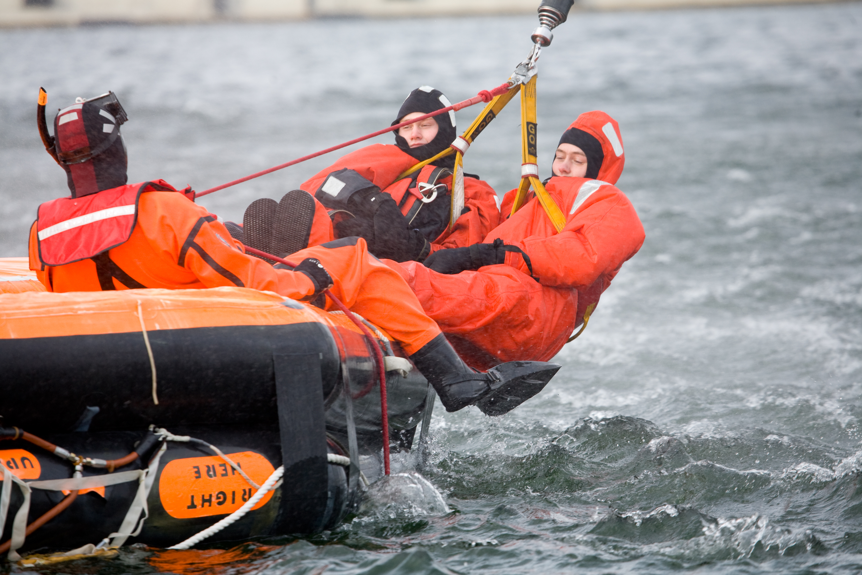 SAR training